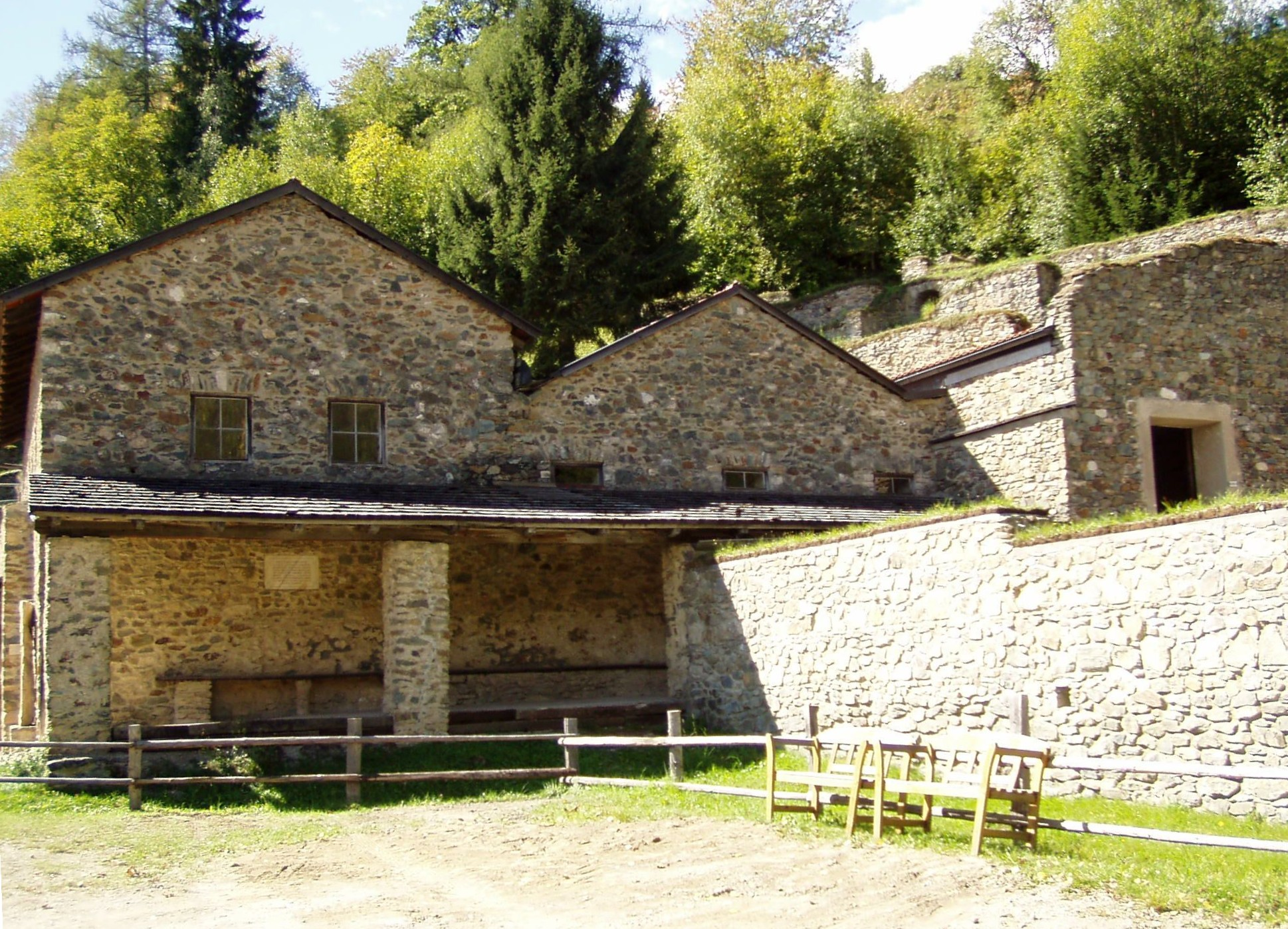 Stadt am Magdalensberg/City on the Magdalensberg